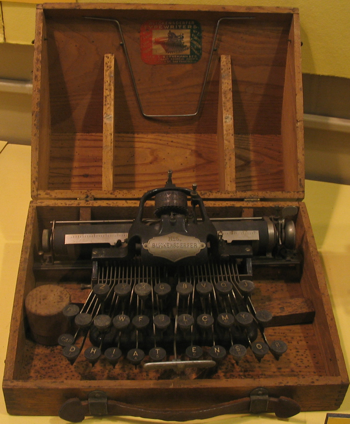 Antique Blickensderfer typewriter invented by George C. Blickensderfer (1850-1917) in 1891 and manufactured by the Blickensderfer Typewriter Co., Stamford, Connecticut, USA. This model is the Blickensderfer 5, the first commercial model, manufactured beginning 1893-5 until after 1906. The typefaces were on a cylindrical typewheel, which could be changed to type different fonts. One of the first truly portable typewriters, it had a DHIATENSOR type keyboard instead of the more common QWERTY. For more information, see Blickensderfer 5, The Virtual Typewriter Museum.